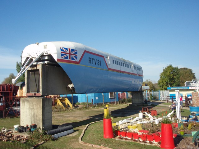 Hovertrain